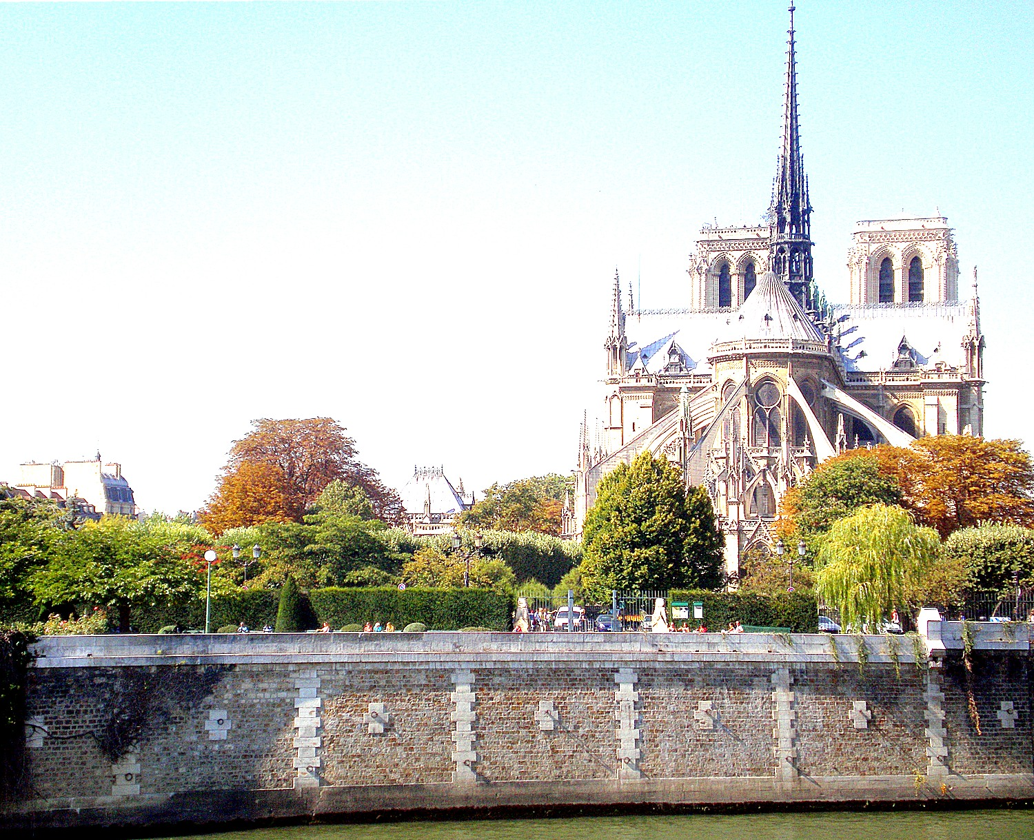 Quai de l'archevêché - Paris